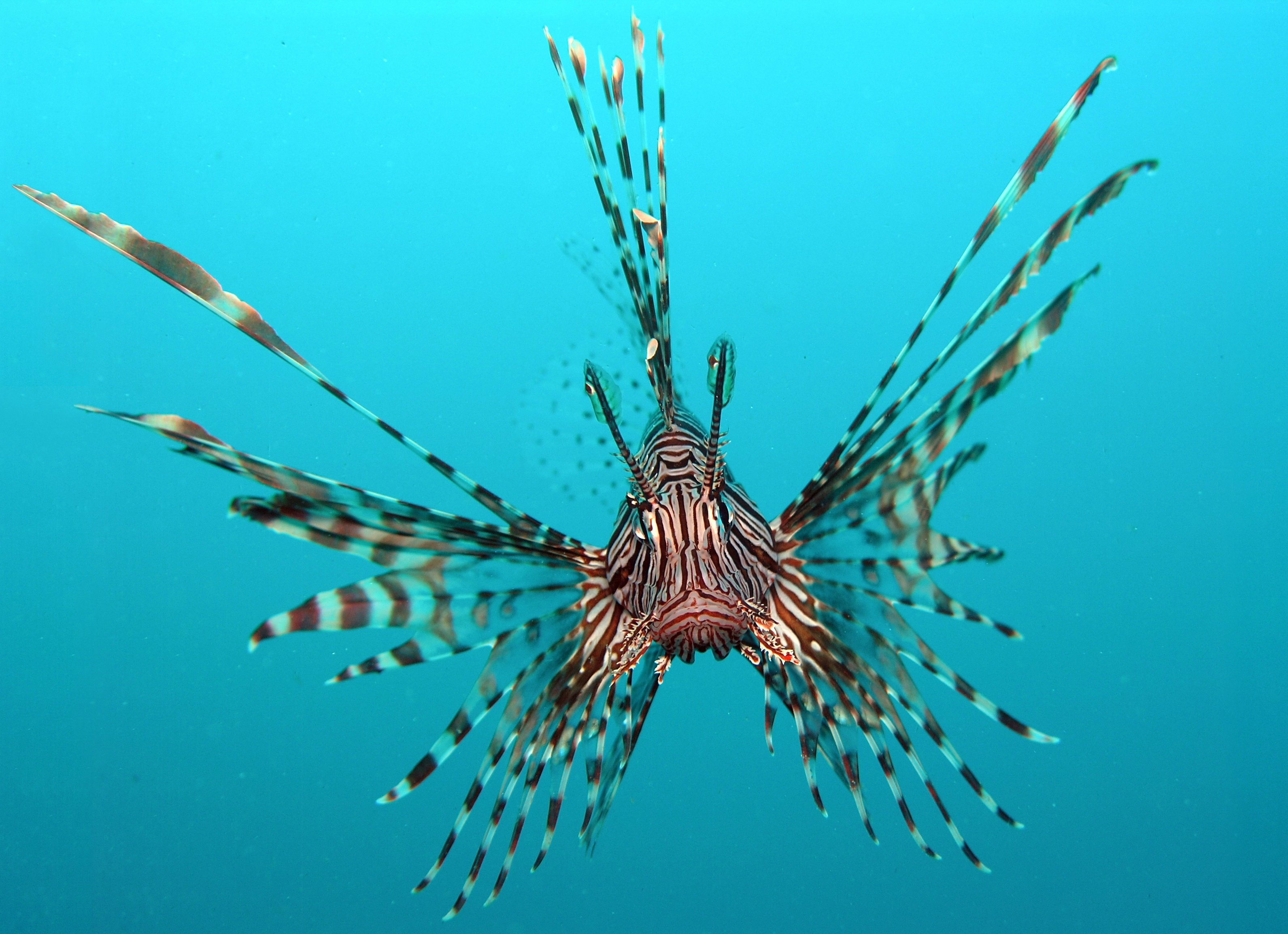 Common lionfish (Pterois volitans) taken at Tasik Ria, Manado, Indonesia.